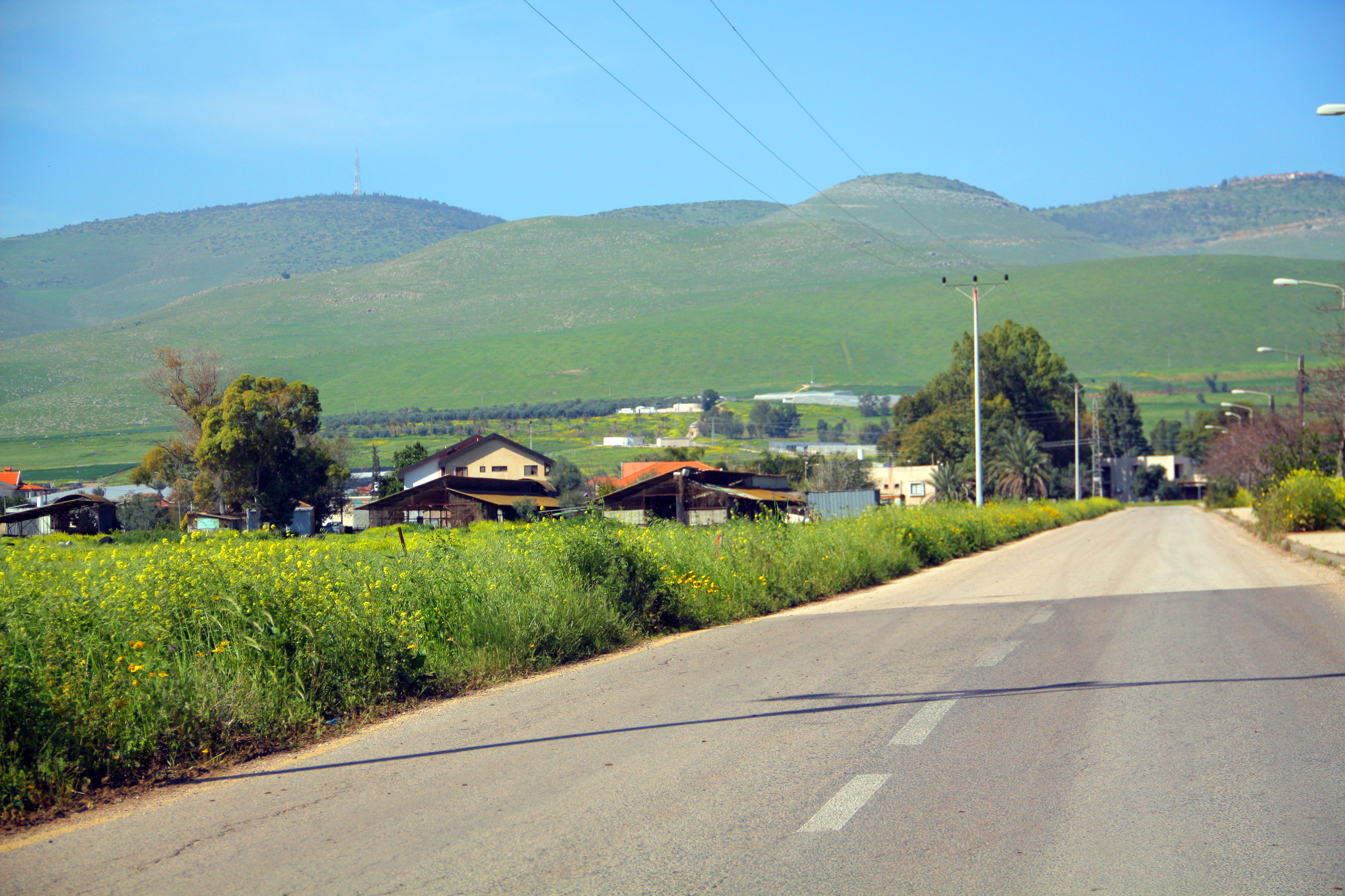 Access road to Israeli Moshav Revaya